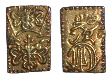 Shinbunzi-1buban